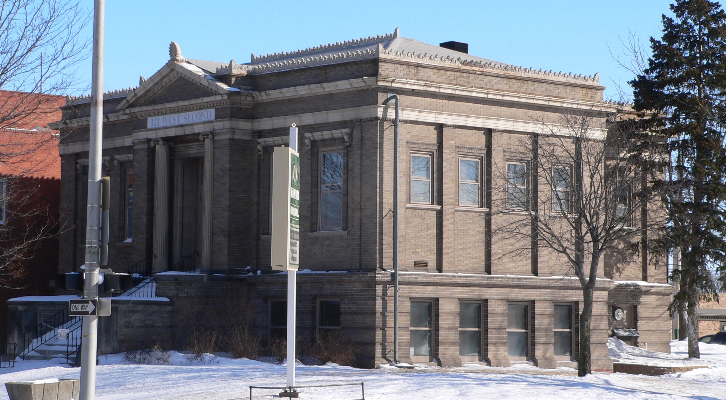 Grand Island Carnegie Library at 321 W. 2nd St. in Grand Island, Nebraska; seen from the northwest. The building was designed in Classical Revival style by architectural firm Tyler & Son, and built in 1903. It is listed in the National Register of Historic Places. The building is no longer used as a library; it is currently occupied by a retirement-planning firm.